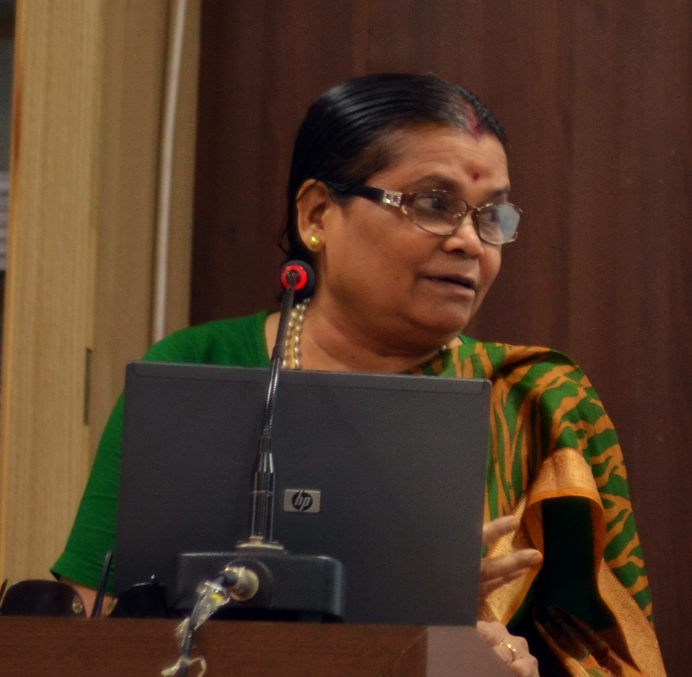 Sanghamitra Mohanty demonstrating prototype Odia language OCR "Divyadrusti" at Odia Language Seminar, Bhubaneswar, Odisha, India